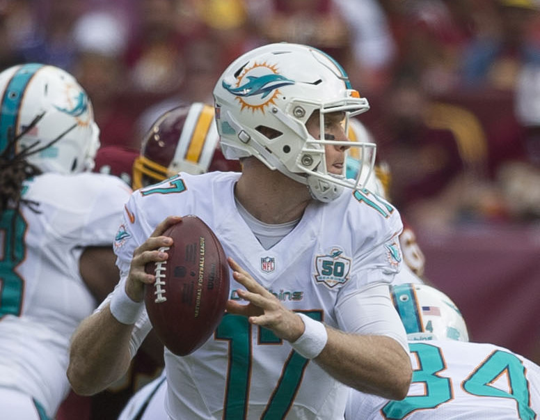 Miami Dolphins quarterback, Ryan Tannehill, playing against the Washington Redskins on September 13, 2015 This file has been extracted from another file: Ryan Tannehill 2015.jpg